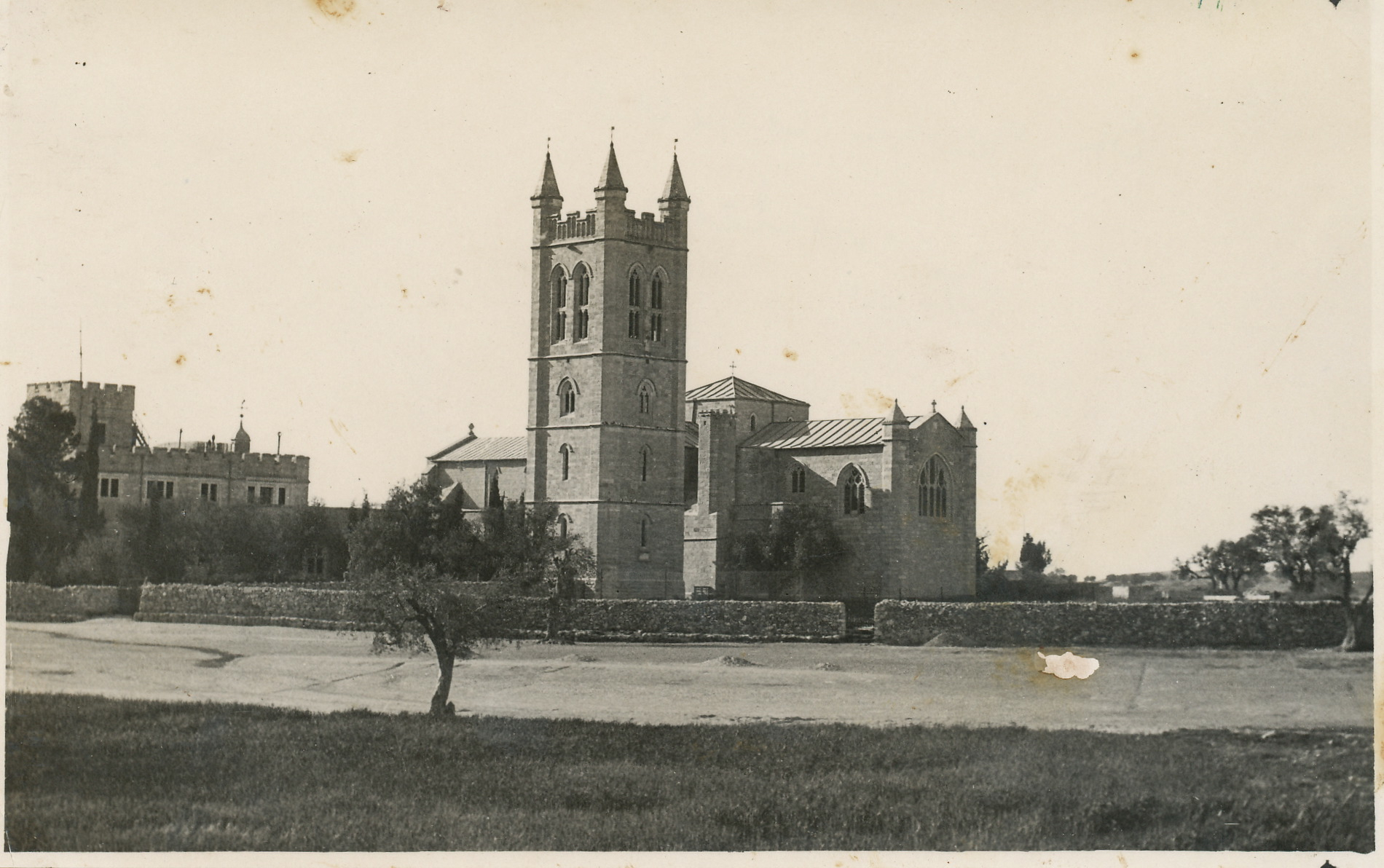 St George's Cathedral, Jerusalem. 1930's